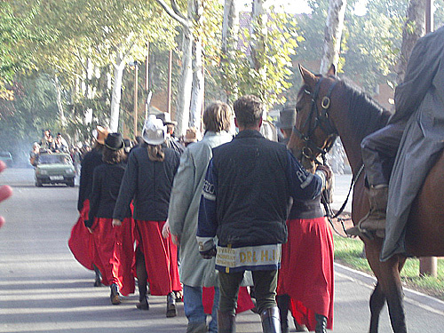 The school-festival "Rózsa-hét" and the winner class 12.B in 2004